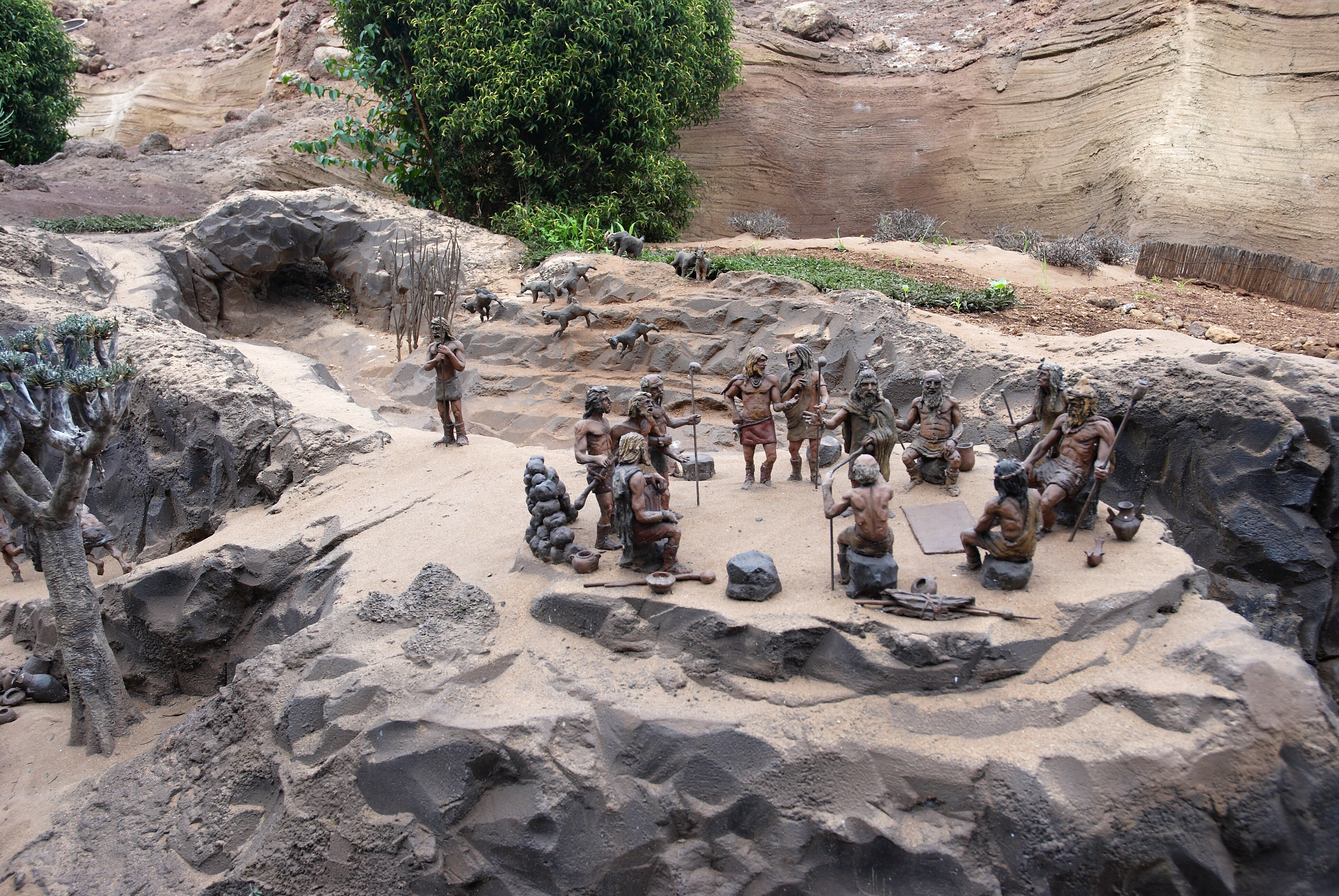 Guanches in Pueblochico, Tenerife